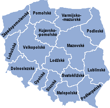 Czech version of Polish voivodships based on Image:Polska kontur bialy.png